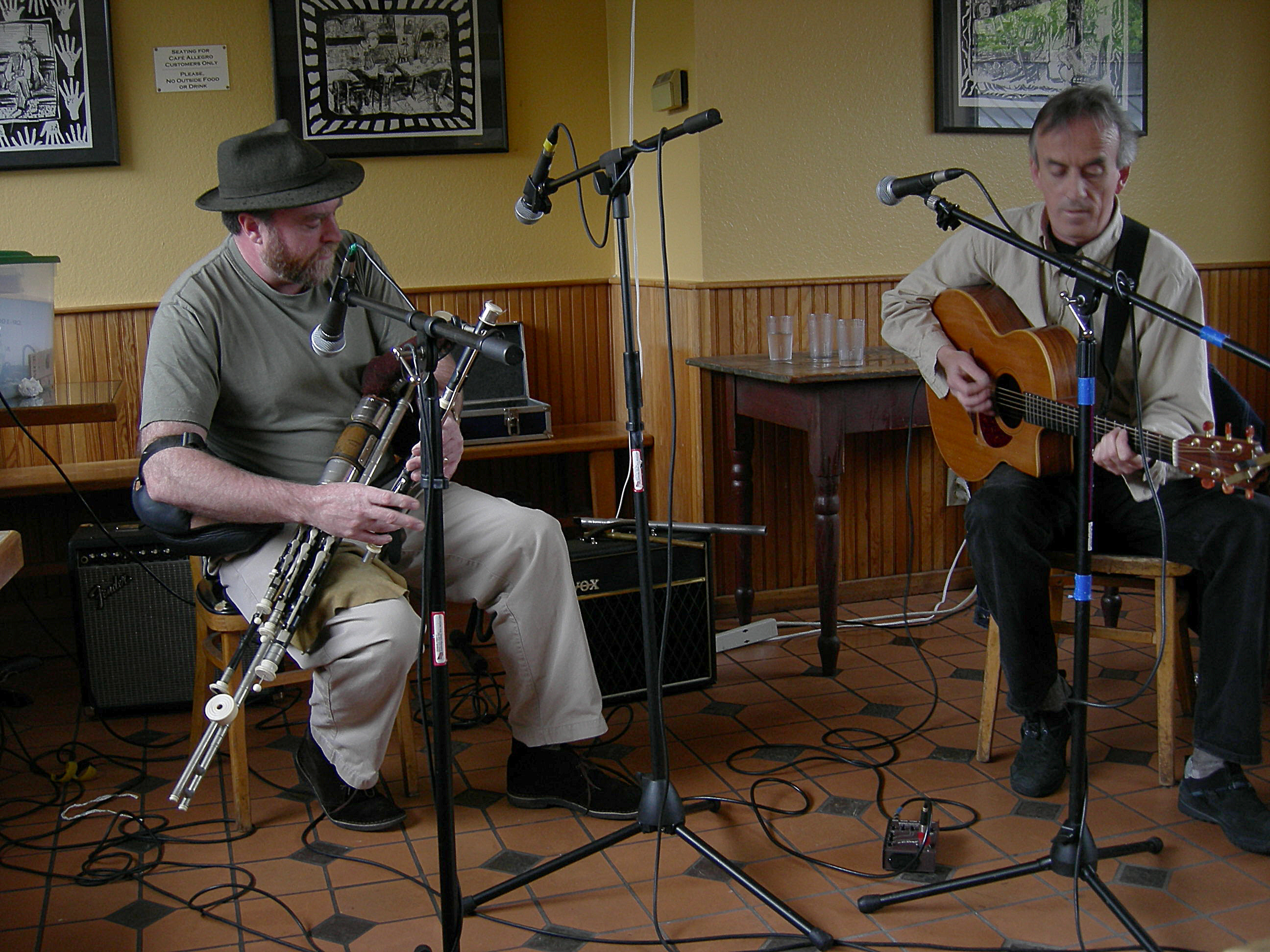 Live music upstairs at the Allegro Cafe (University District, Seattle, Washington). Tom Creegan (Irish bagpipes) and Finn MacGinty (guitar).